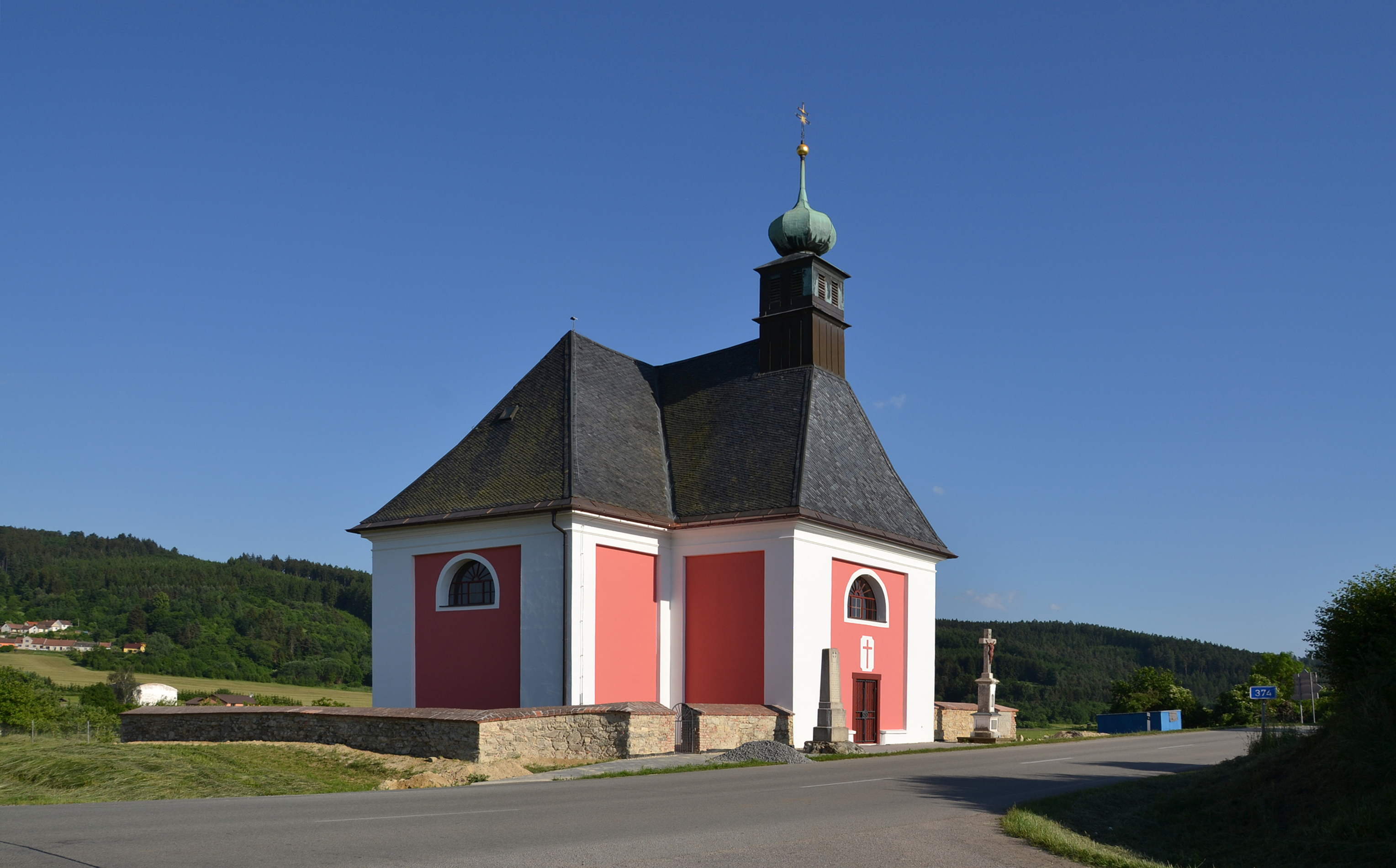 Vážany (Waschan), Moravia - Church of the Annunciation of the Virgin Mary